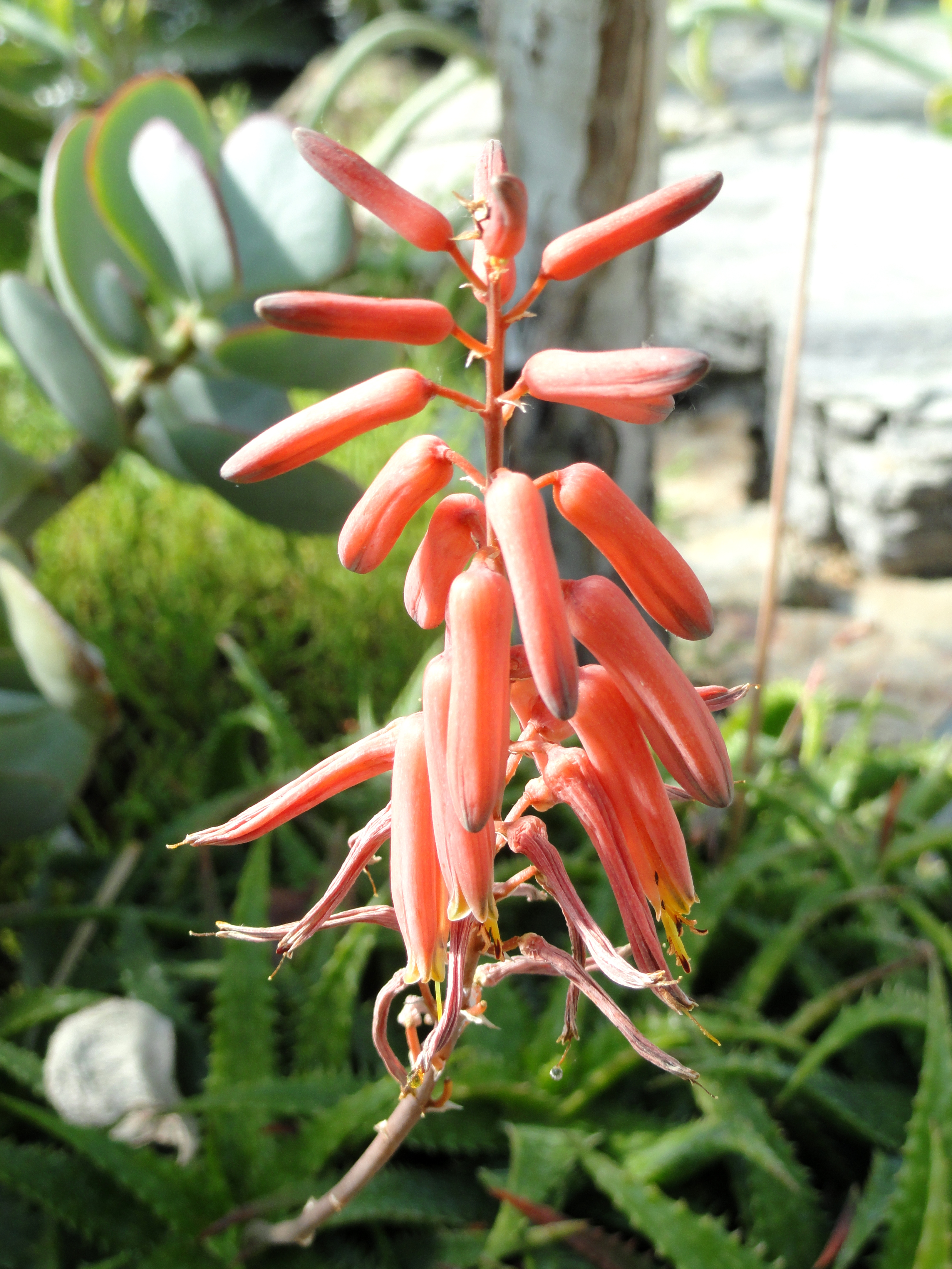 Aloe dorotheae specimen in the Botanischer Garten München-Nymphenburg, Munich, Germany.